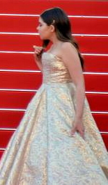 The actress Addison Riecke at Cannes Film Festival in 2017.